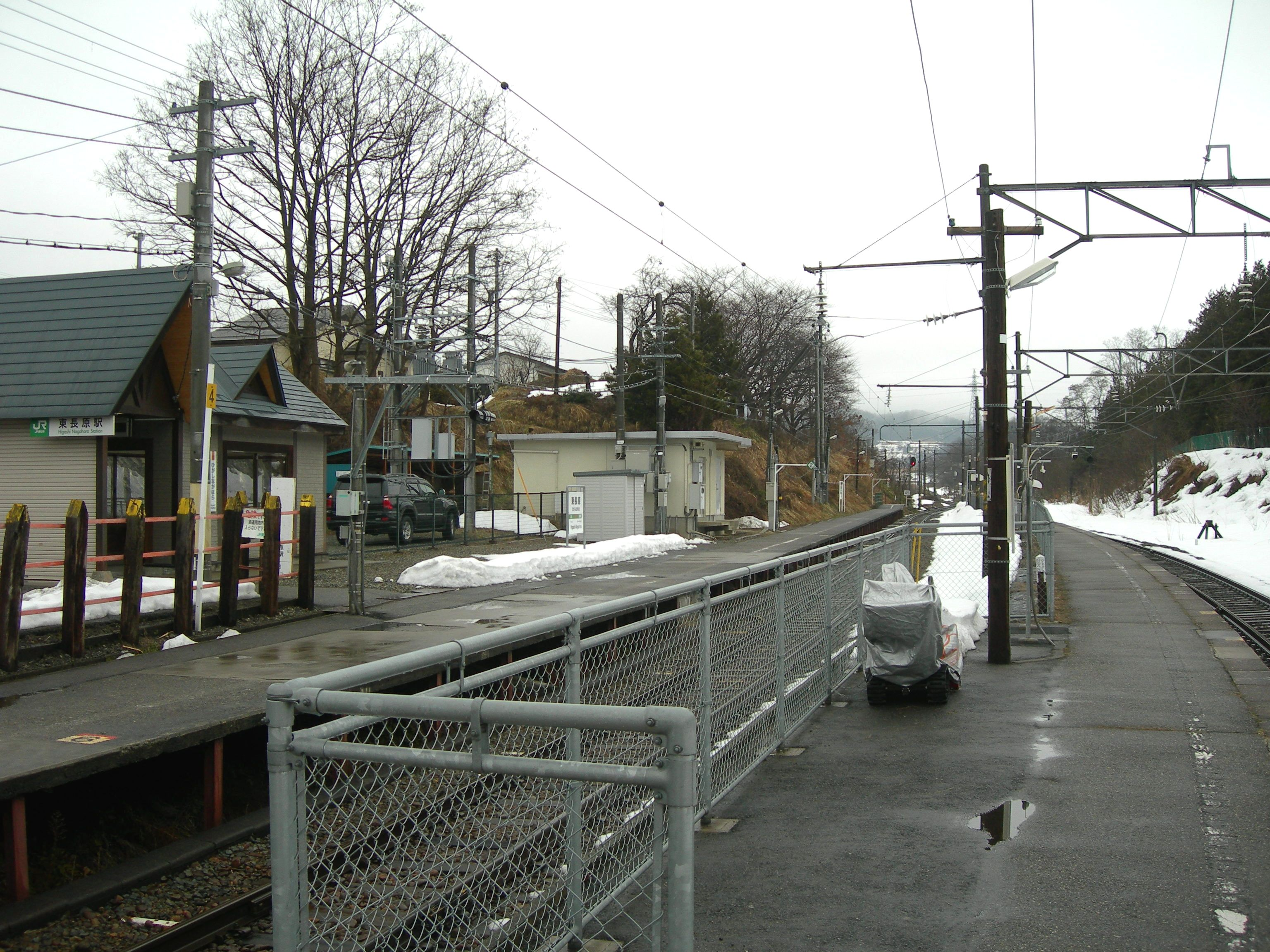 Higashi-Nagahara Station platform